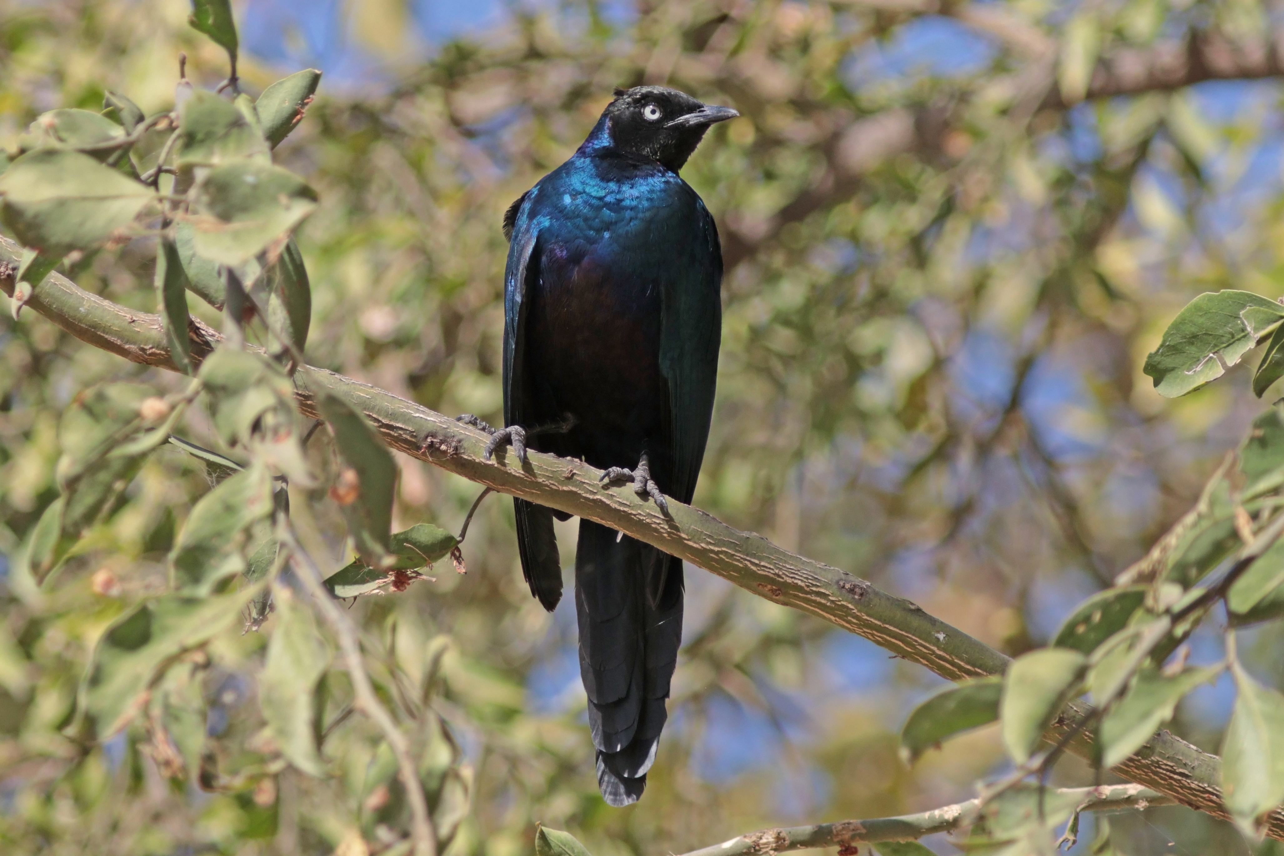 Splendid starling (Lamprotornis splendidus splendidus), Amora Gedel Park, Awassa, Ethiopia